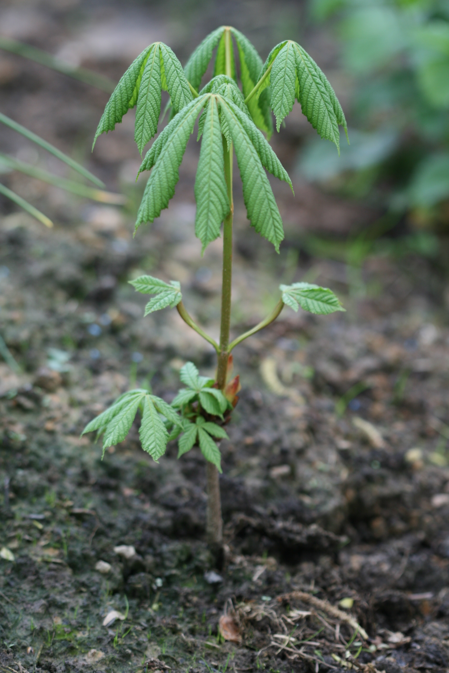 Horse-chestnut - 2 year old - Hainaut - Belgium - Young leaves in Spring